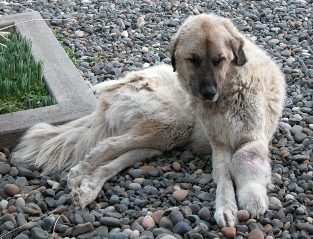 A Kangal, named Goncho, has cancer in its left leg.